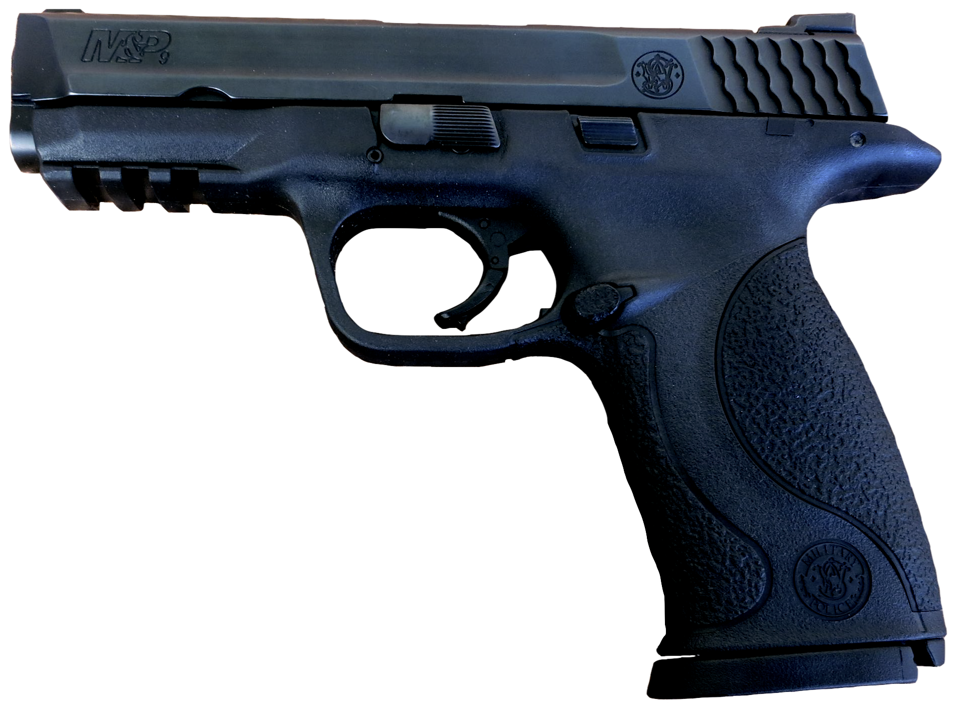 Smith & Wesson M&P 9